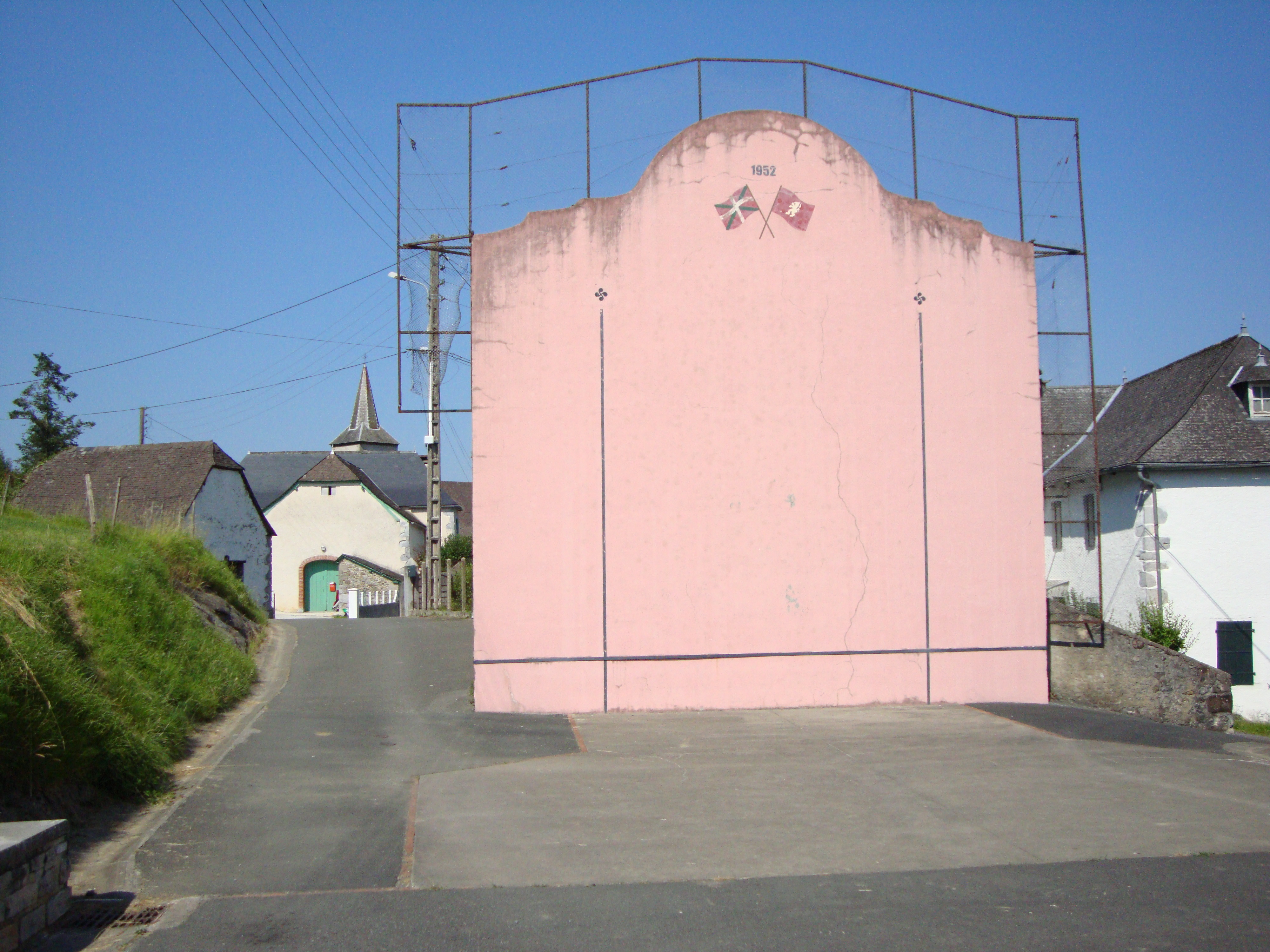 Lacarry (Lacarry e.a. Pyr-Atl, Fr) pelota court